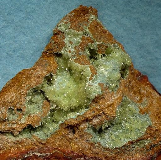 Senegalite Locality: Mount Kourou Diakouma (Kouroudiako), Saraya, Falémé River basin, Tambacounda Region, Senegal (Locality at ) Size: 8.5 x 7.0 x 3.0 cm. Senegalite is an ULTRA-RARE aluminum phosphate found in only two localities worldwide and this piece is from the Type Locality in Senegal. This super-rich and showy specimen is from a very recent rediscovery of this rare species and features large boxwork-like cavities lined with senegalite and various phosphates species in a limonite gossan matrix.